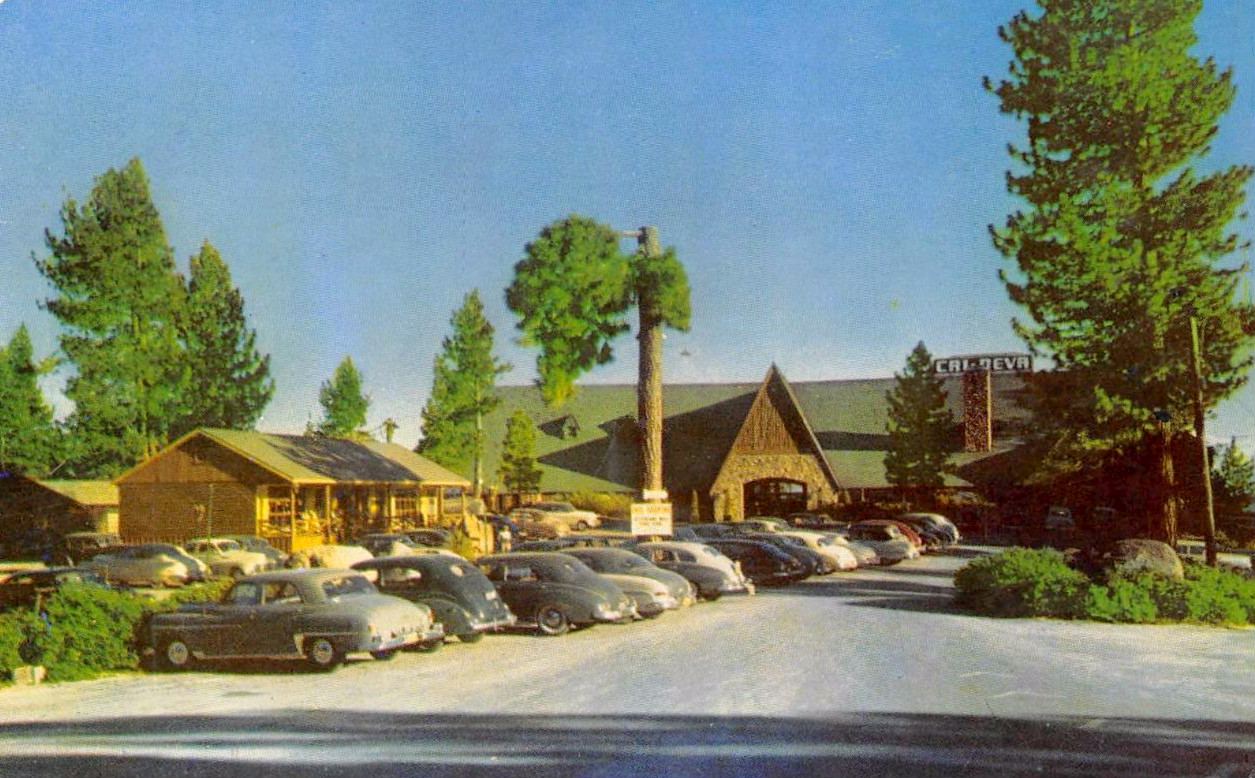 Photo of the Cal Neva Lodge at Lake Tahoe.